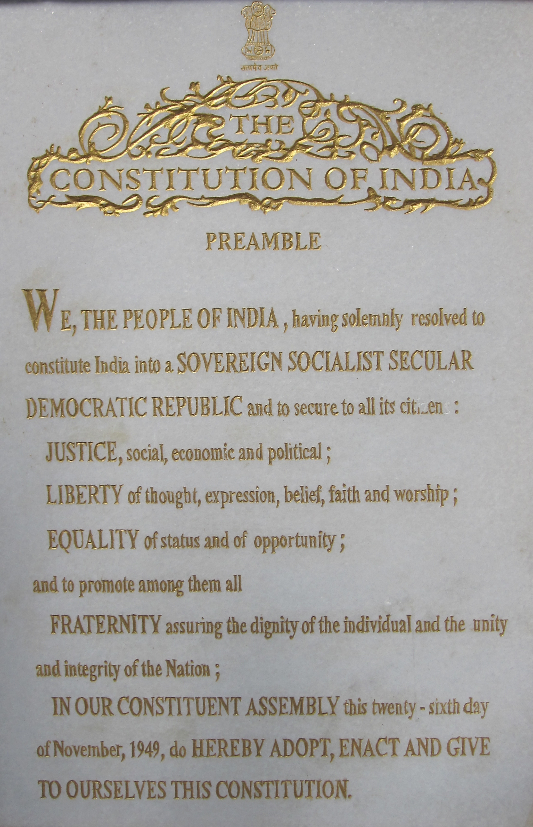 Preamble of the Constituion of India. It is photographed in fort campus, University of Mumbai